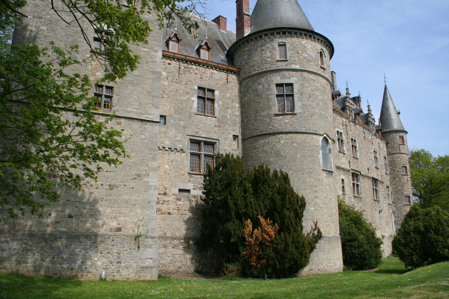 Ham-sur-Heure (Belgique), the square tower and the two semicircular towers of the south facade of the former Princes de Mérode castle (now city hall).